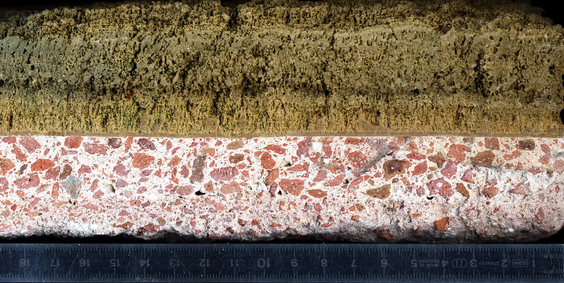 Fréjus's aqueduct : tuileau mortar